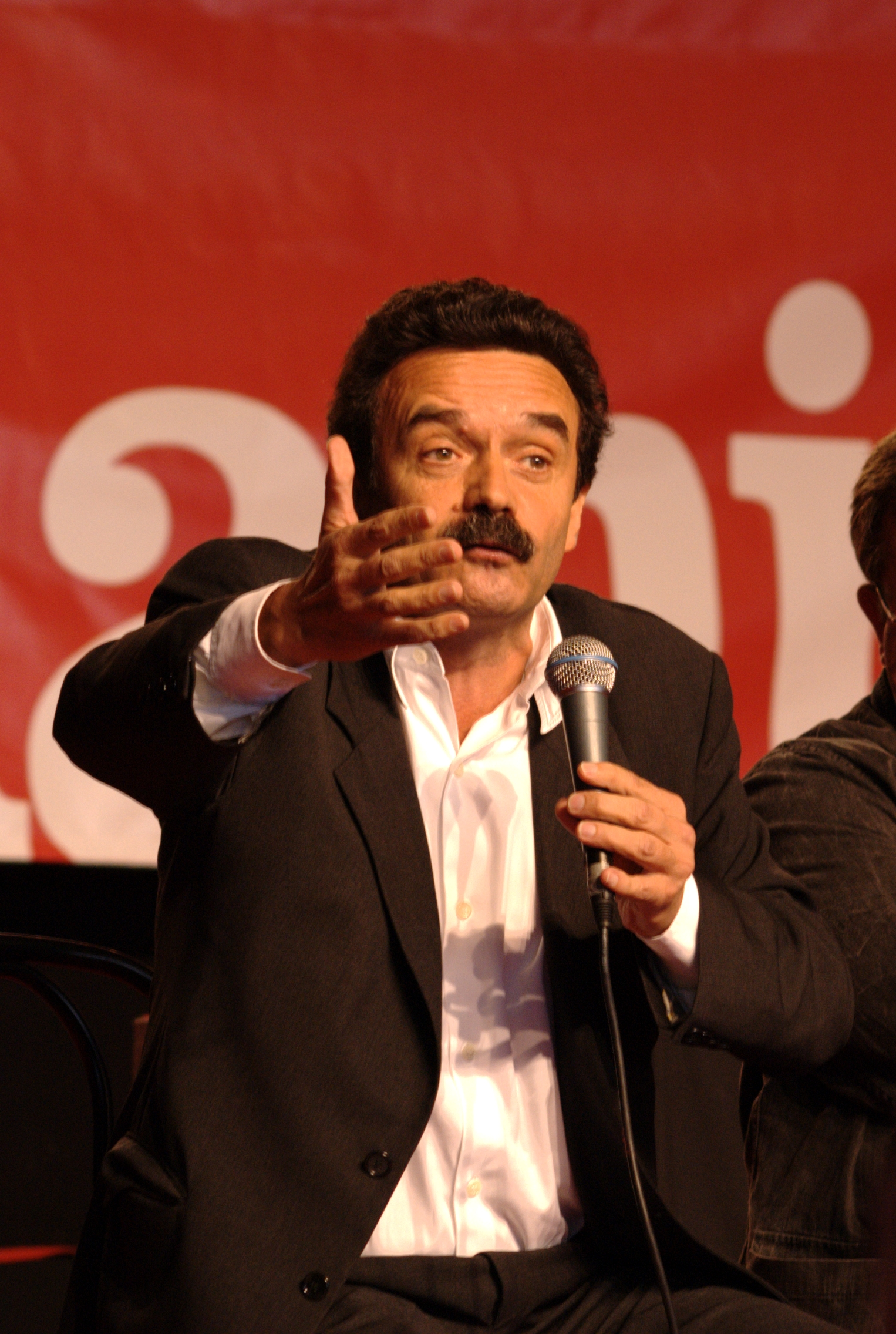 Edwy Plenel at the Fête de l'Humanité 2008 talking about medias